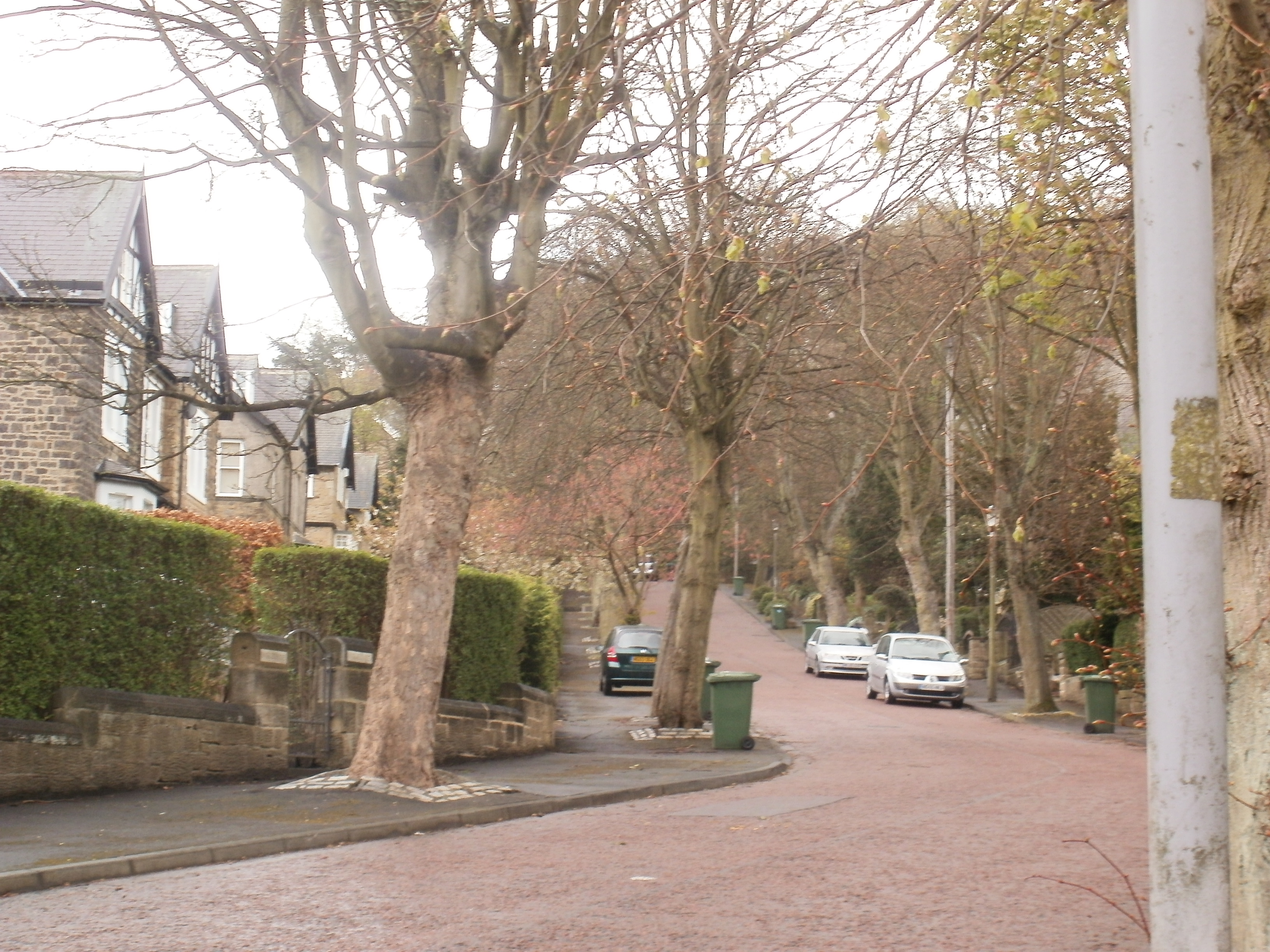 Kellfield Avenue is typical of the village-like streets prevalent in Law Fell, Gateshead